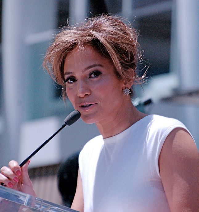 Jennifer Lopez at a ceremony to receive a star on the Hollywood Walk of Fame.